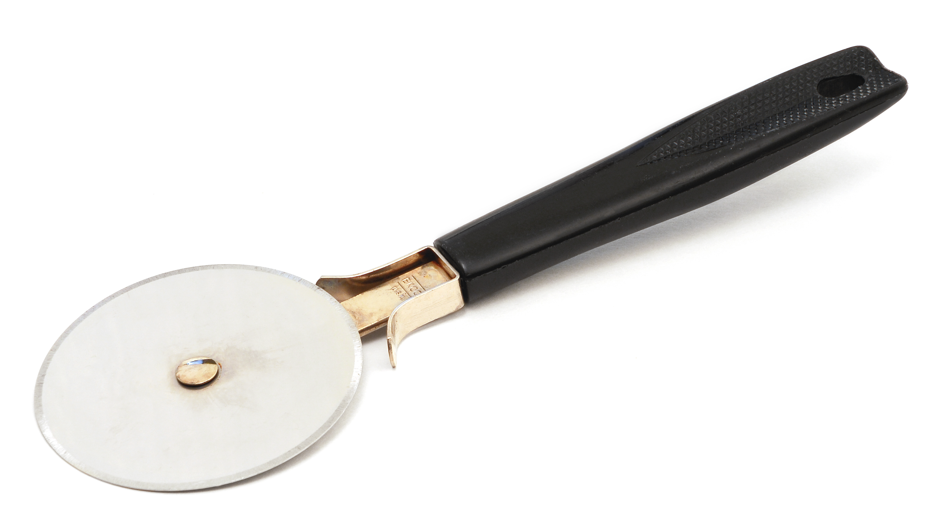 A simple pizza slicer.